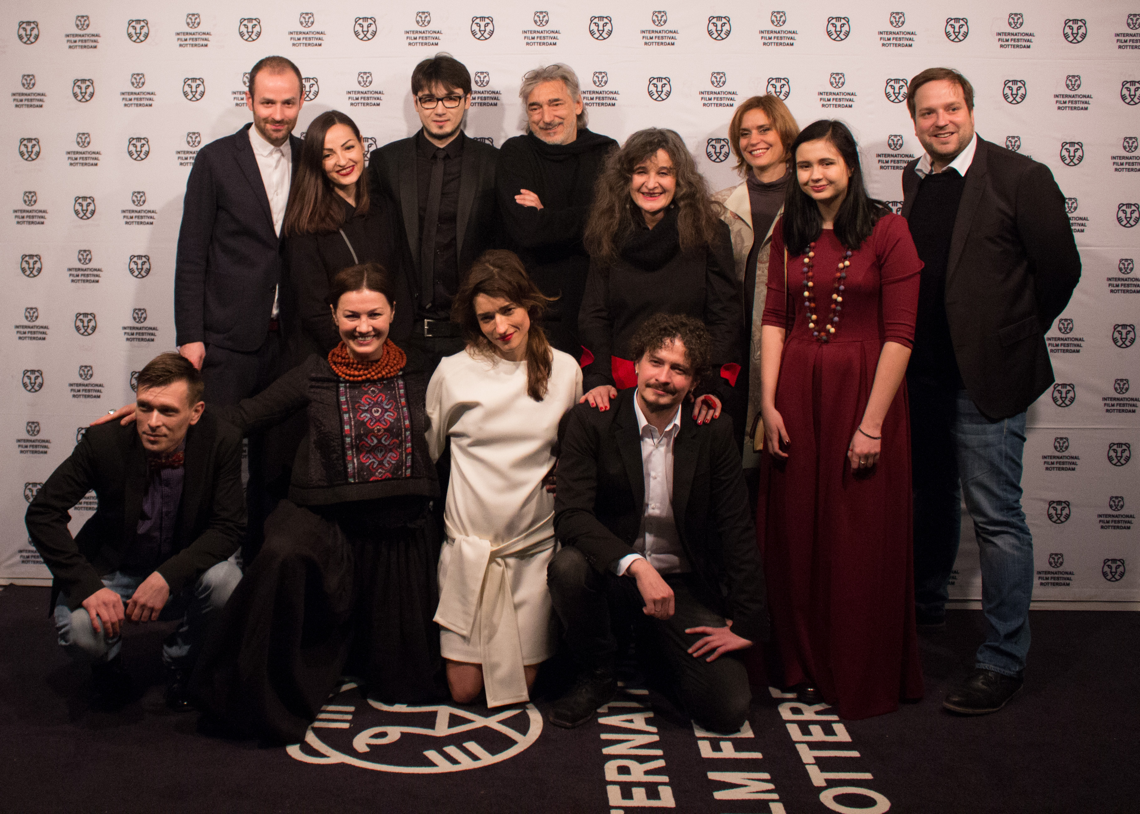 DirectorJuri Rechinsky ProducerAlexander Glehr, Franz Novotny Production CompanyNovotny & Novotny Filmproduktion GmbH SalesNovotny & Novotny Filmproduktion GmbH WriterKlaus Pridnig CinematographyWolfgang Thaler EditorRoland Stöttinger Production DesignConrad Reinhardt Sound DesignAndrey Rogachov MusicAnton Baibakov CastAngela Gregovic, Maria Hofstätter, Dmitriy Bogdan, Raimund Wallisch, Larisa Rusnak, Vlad Troitsky, Valery Bassel